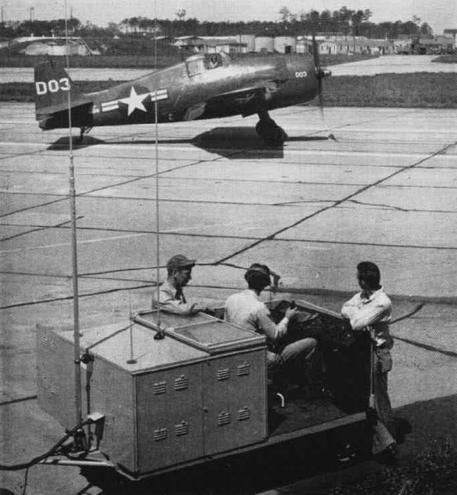 A Grumman F6F-5K Hellcat drone with a "Fox" control cart.